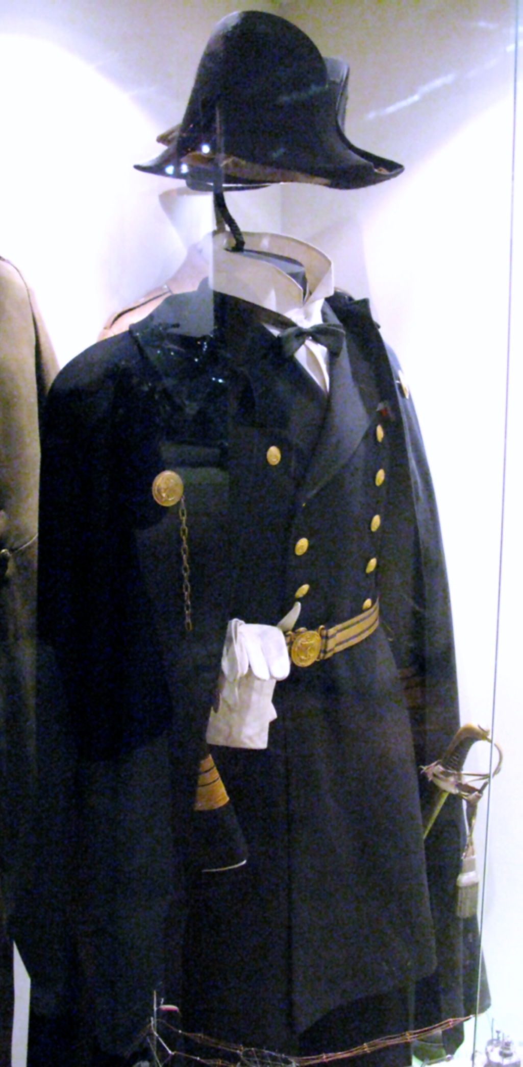 Parade Uniform of Lieutenant Commander of Polish Navy (before 1939)